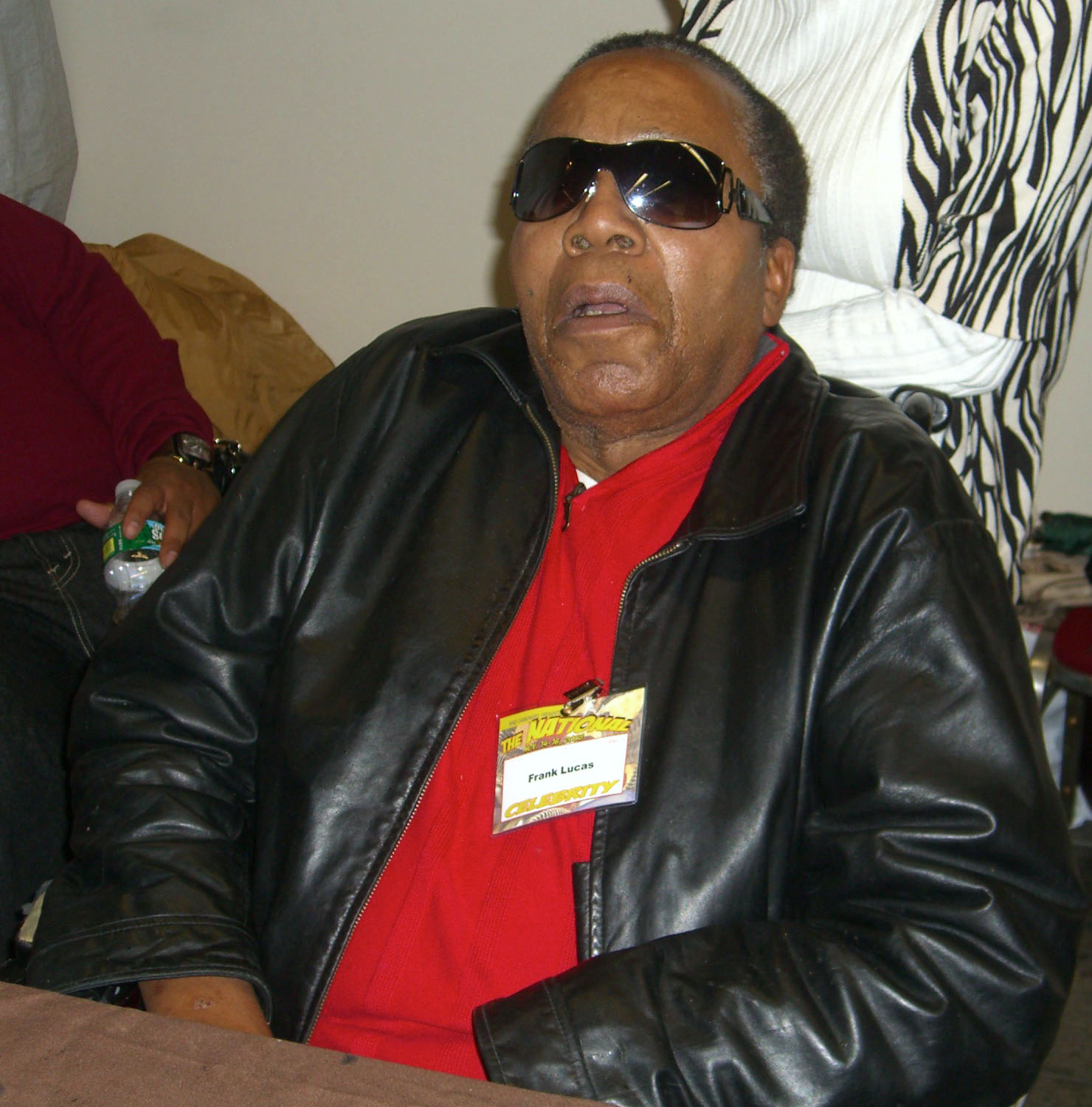 Former drug lord Frank Lucas at the November 2008 Big Apple Convention in Manhattan. Photo by Luigi Novi. This photo may be used and modified, for any purpose, only if the photographer is visibly credited in each instance in which it is used. (See licensing information below.) For more information on my photos, you can contact me here.